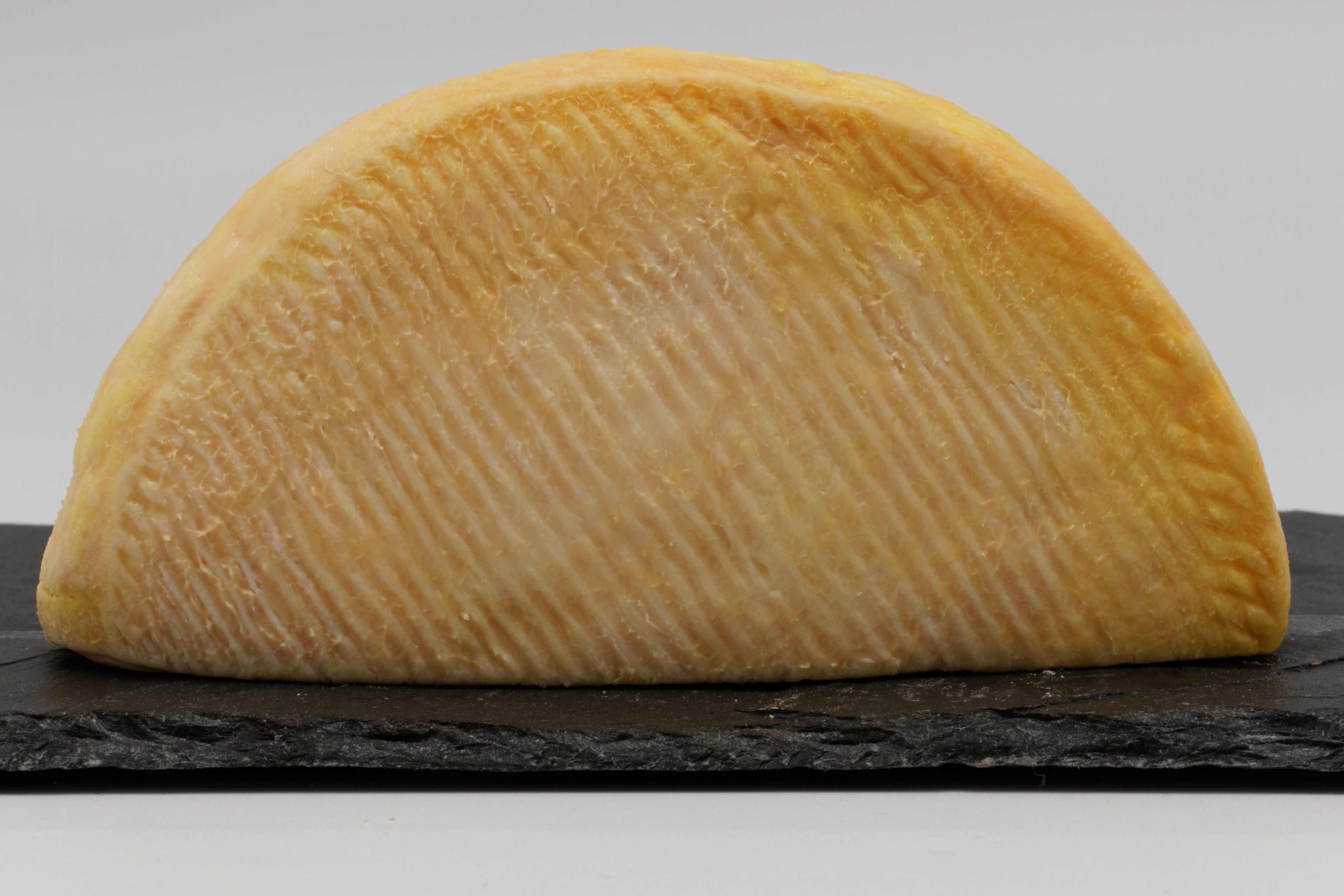 Munster